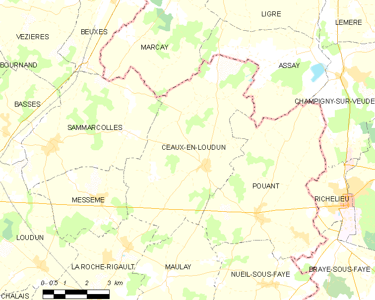 Map of French municipality Ceaux-en-Loudun